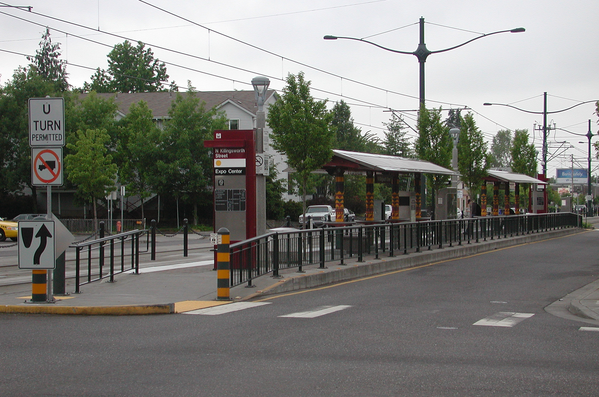 North platform of the Killingsworth station of the Metropolitan Area Express (MAX) light-rail system in Portland, Oregon, United States, looking northwest